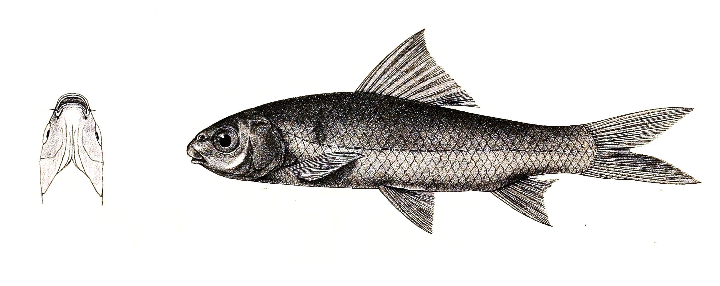 The species names / identity need verification - original names from plate are included here. The original plates showed the fishes facing right and have been flipped here. Labeo boga